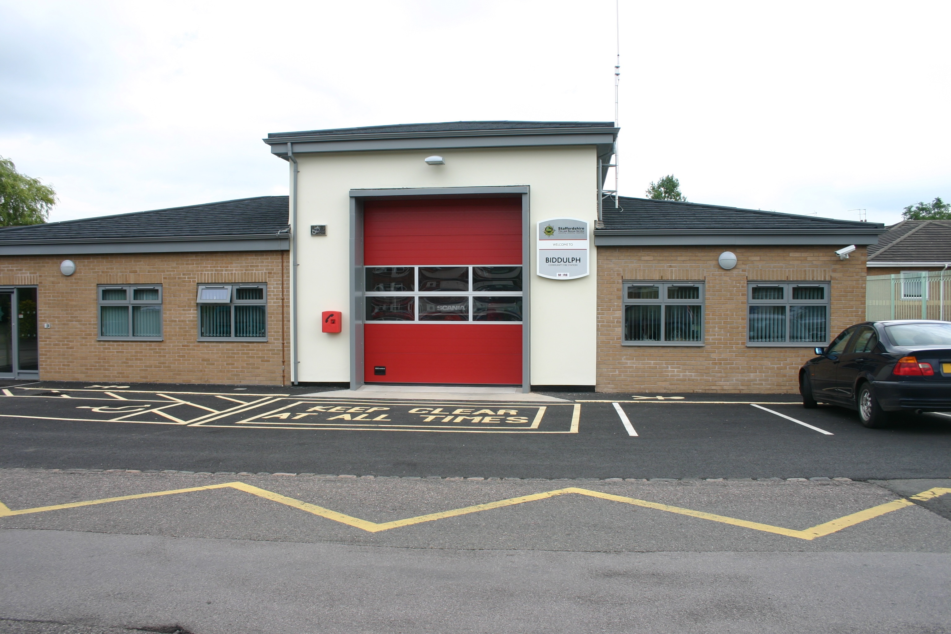 Biddulph Community Fire Station in Staffordshire